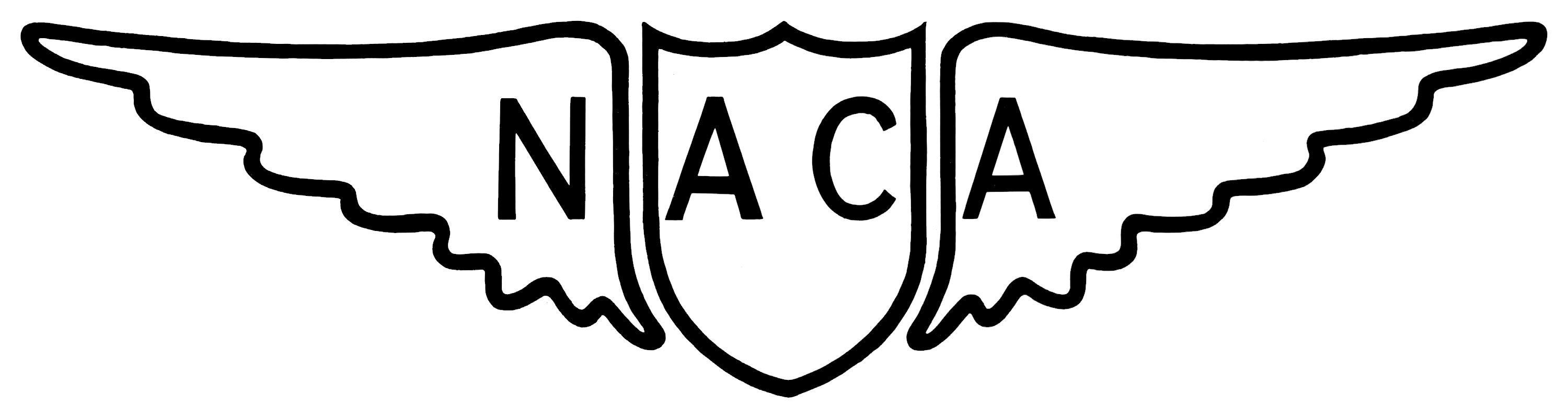 Emblem of National Advisory Committee for Aeronautics, precursor agency to NASA. Full Description: On April 24, 1941, at the semi-annual meeting of the National Advisory Committee for Aeronautics, the official NACA Standard Seal was approved to be used on buildings under construction. The insignia portrayed a shield with a wing on either side and the letters "NACA" inscribed across it.